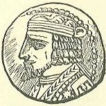 Coin of Vardanes I of Parthia